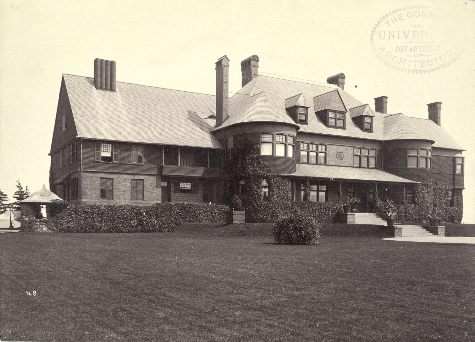 Collection: A. D. White Architectural Photographs, Cornell University Library Accession Number: 15/5/3090.00541 Title: Robert Goelet House Photographer: Charles Dudley Arnold (American, 1844-1927) Architect: McKim, Mead & White (1878-) Photograph date: ca. 1883-ca.1895 Building Date: 1882-1883 Location: North and Central America: United States; Rhode Island, Newport Materials: albumen print Image: 6 x 8 1/8 in.; 15.24 x 20.6375 cm Provenance: Transfer from the College of Architecture, Art and Planning Persistent URI: There are no known U.S. copyright restrictions on this image. The digital file is owned by the Cornell University Library which is making it freely available with the request that, when possible, the Library be credited as its source. We had some help with the geocoding from